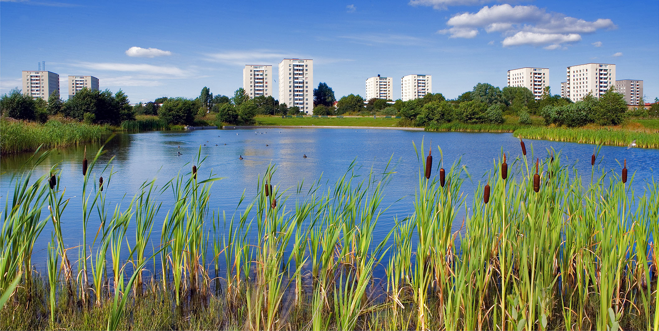 Valladammen, a pond at Årstafältet in Stockholm, Sweden